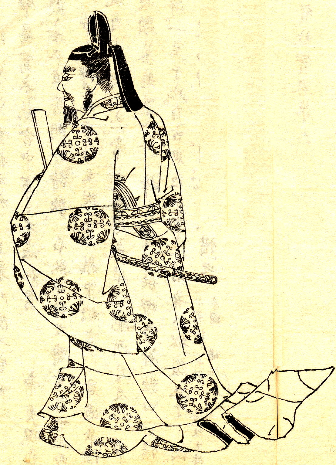 Fujiwara no Michinaga(藤原 道長, 966-1027) was a court politician of Japan in the Heian Period. This picture was drawn by Kikuchi Yosai（菊池容斎, November 28, 1781 - June 16, 1878)） who was a painter in Japan.